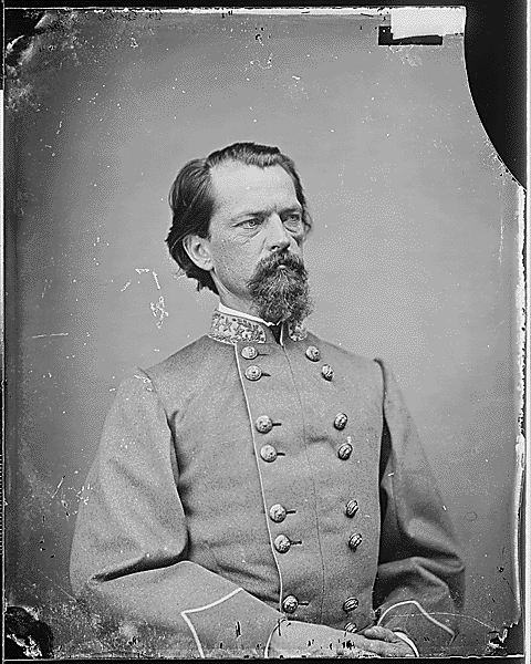 John Brown Gordon (February 6, 1832 – January 9, 1904), Confederate general during the American Civil War. After the war, he was a strong opponent of Reconstruction and was generally acknowledged to be the titular leader of the Ku Klux Klan in Georgia during the late 1860s. Member of the Democratic Party, he served as a U.S. Senator from 1873 to 1880, and was the governor of Georgia from 1886 to 1890. (from Wikipedia)